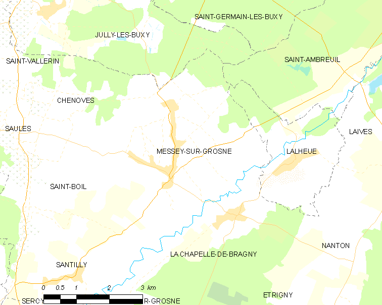 Map of French municipality